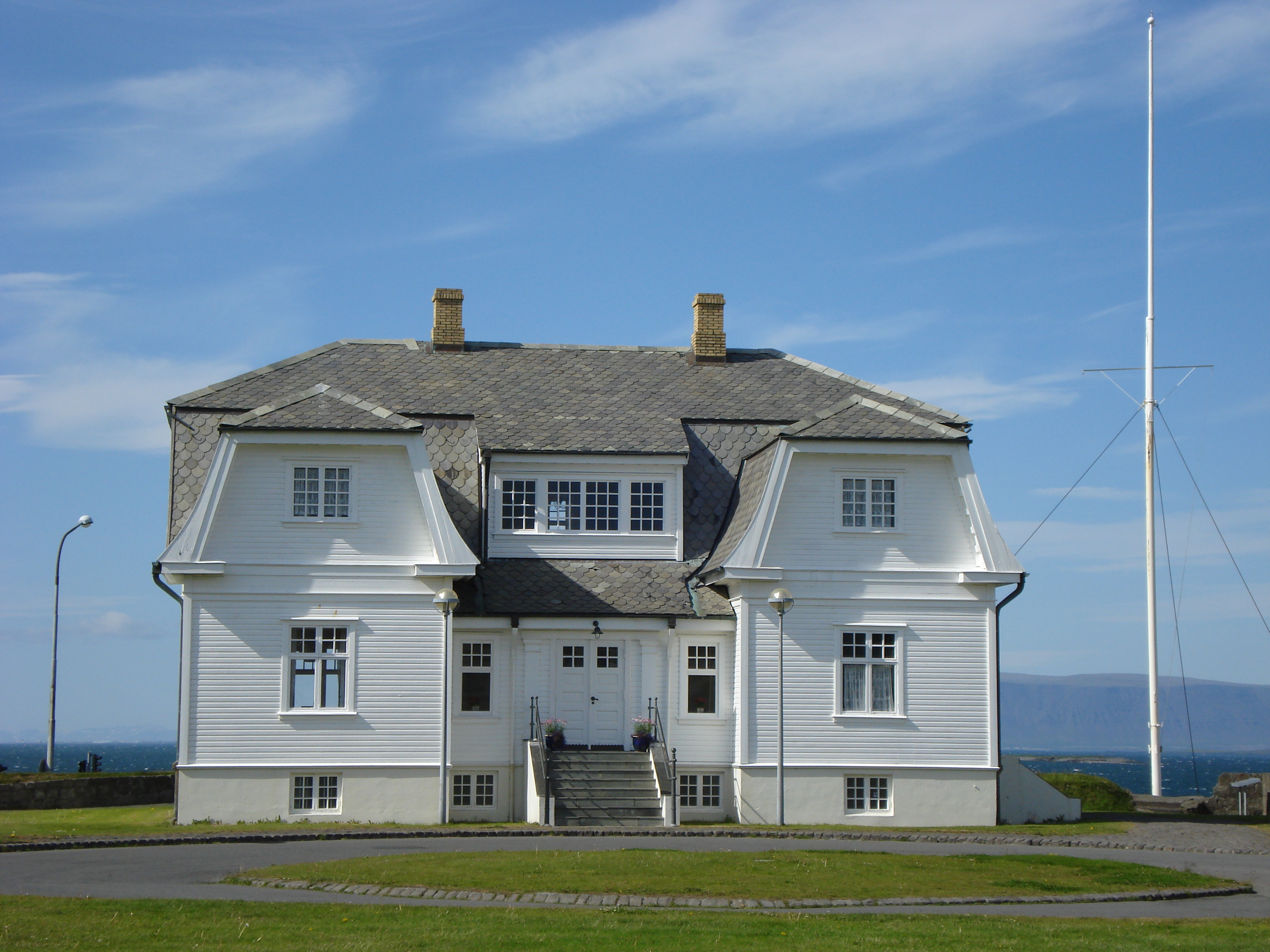 Höfði, guesthouse of the city of Rekjavík, place of the Rekjavík summit between Ronald Reagan und Michail Gorbatschow in 1986